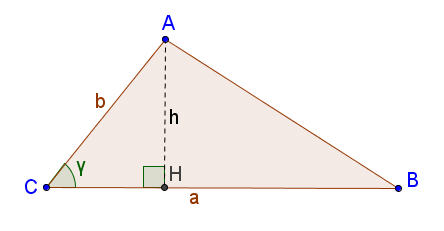 area of the triangle